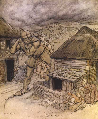 "Jack the Giant-Killer" by Arthur Rackham